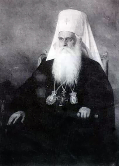 Patriarch Dimitrije of Serbia